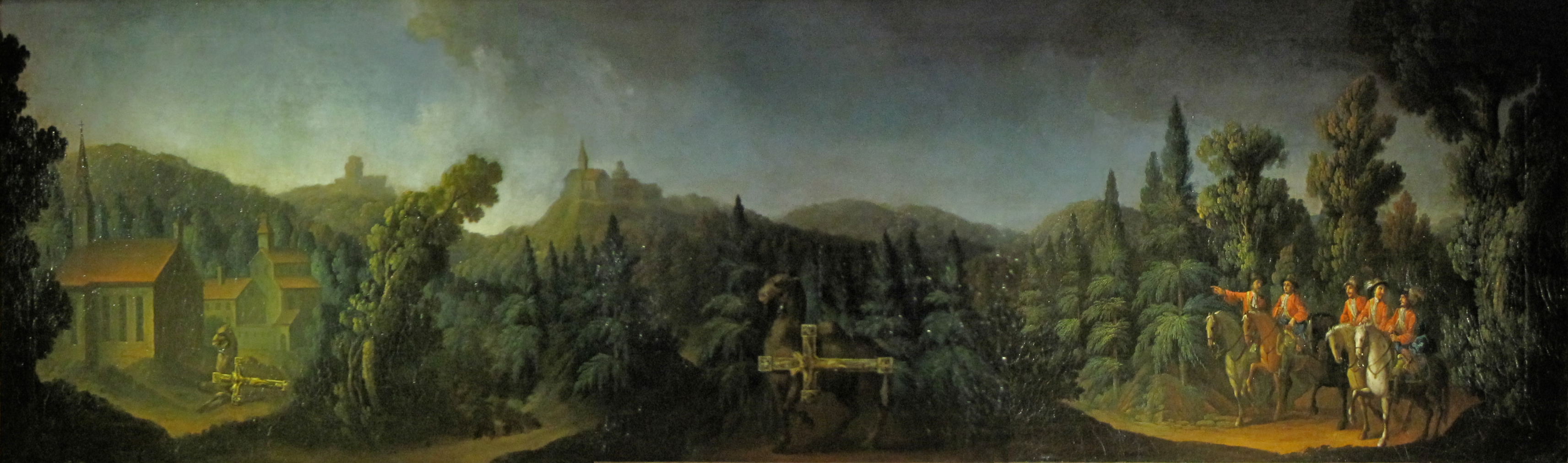 Paiting in the Eglise des Jésuites in Molsheim, Bas-Rhin, France. Legend of the creation of the Niedermunster of the Mont Sainte-Odile. It was created with 3 photos (because of light conditions). It is not a faithful reproduction of the original painting